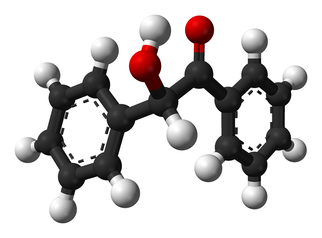 Ball-and-stick model of the (S)-benzoin molecule